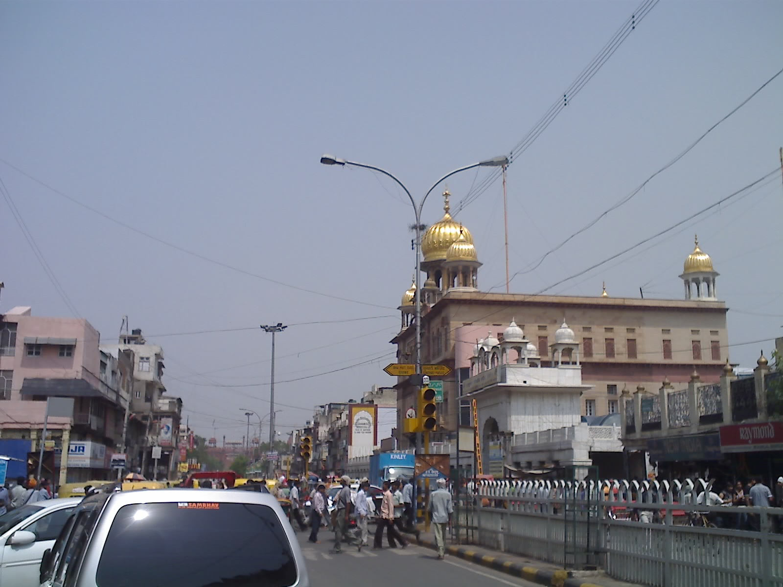 Chandni chowk with sisganj gurudwara